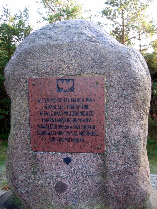 Poland's Betrothal with the Sea in Mrzeżyno.